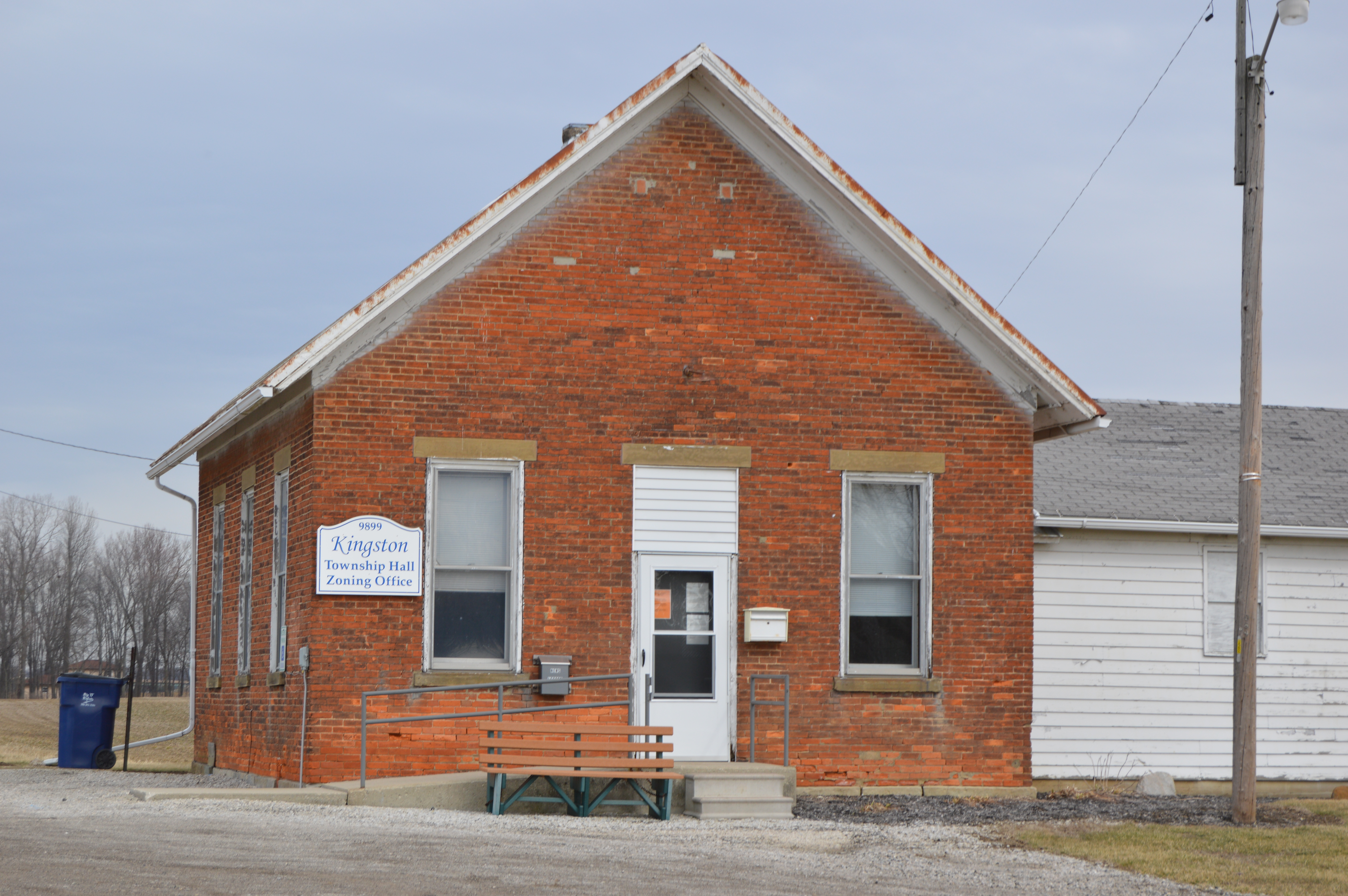 Front and western side of the Kingston Township Hall, located at 9899 State Route 521 in Kingston Township, Delaware County, Ohio, United States.